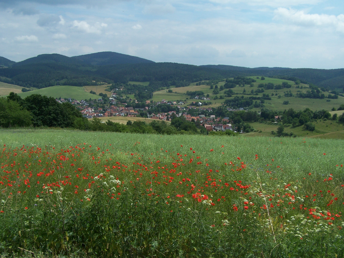 The landscape at Trusetal.